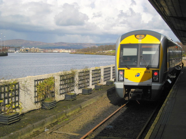 Waiting to depart from Derry/Londonderry (Waterside) Railway Station The 1335 Sunday service to Belfast Great Victoria Street (except that actually, sir, this train goes to Portrush so change at Coleraine) with the River Foyle to the left.